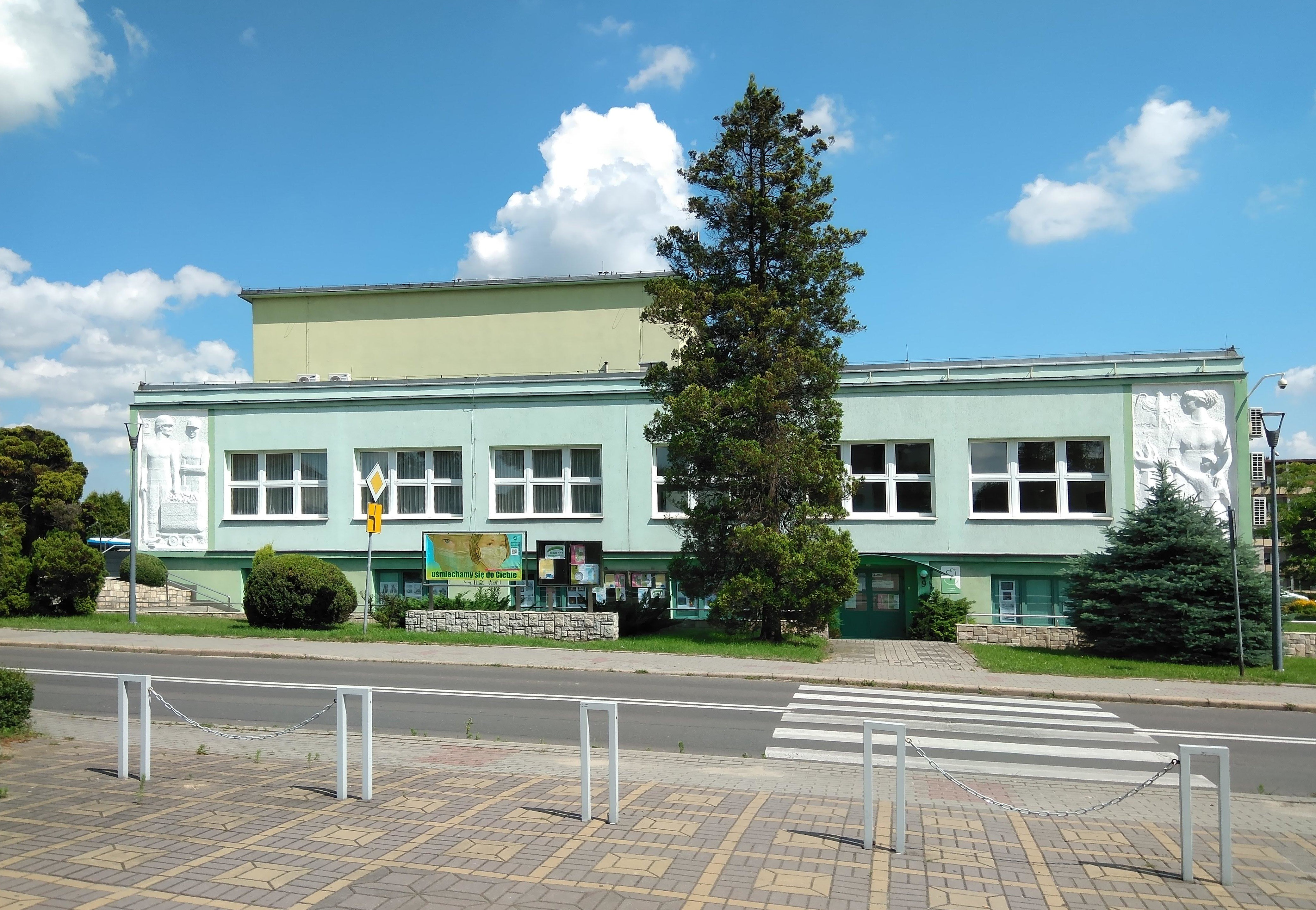 House of Culture in Radlin-Biertułtowy, Upper Silesia, Poland